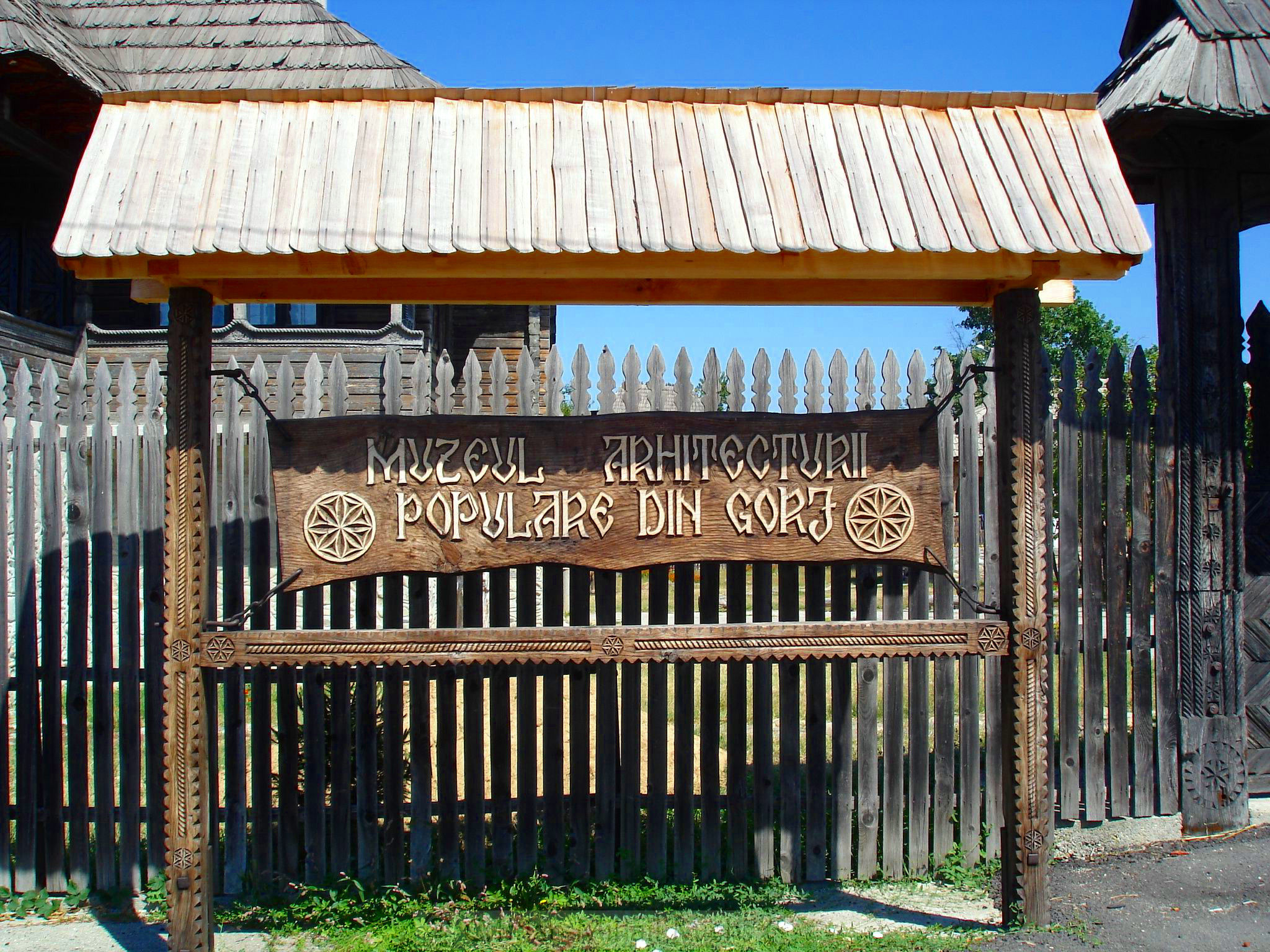 Entry gate to the Museum of Popular Architecture of Gorj County, located in the village of Curțișoara, Gorj